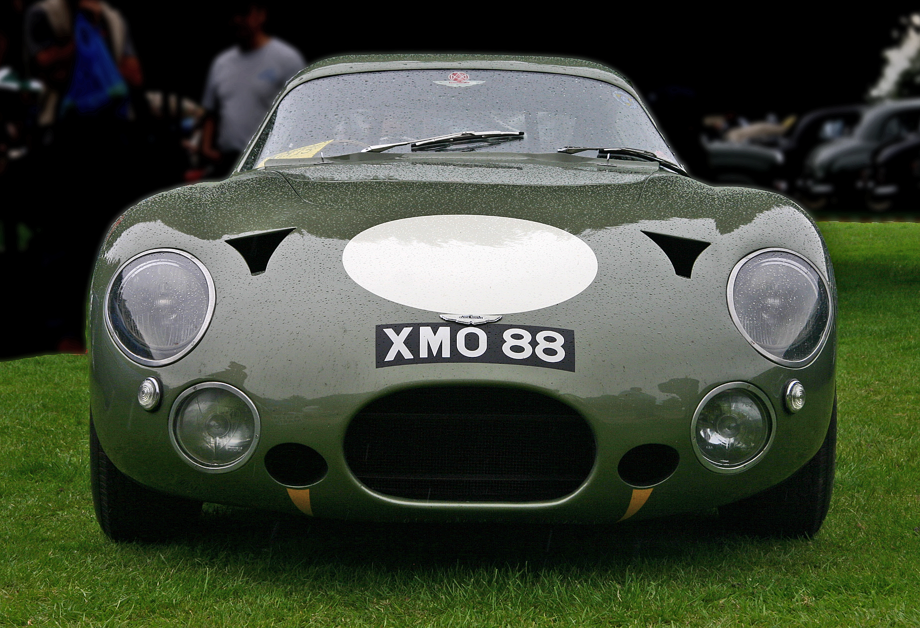 Aston Martin DP215. There was a 4-litre Tadek Marek 326bhp engine under the bonnet, which would give 198mph on the Le Mans straight. But the car retired in both the 1963 Le Mans and 1963 Rheims 12hour and then was heavily crashed on the M1 motorway in 1965.